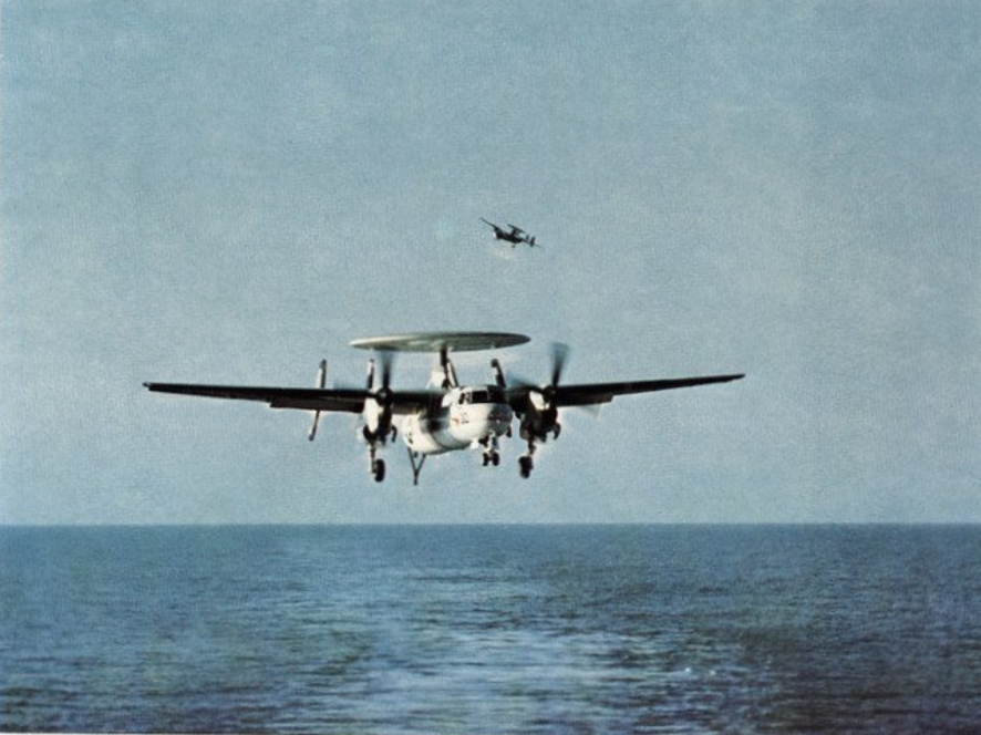 Two U.S. Navy Grumman E-2B Hawkeye of Carrier Airborne Early Warning Squadron 114 (VAW-114) "Hormel Hogs" approach the aircraft carrier USS Kitty Hawk (CV-63). VAW-114 was assigned to Carrier Air Wing 11 (CVW-11) aboard the Kitty Hawk for a deployment to the Western Pacific, Vietnam and the Indian Ocean from 23 November 1973 to 9 July 1974.